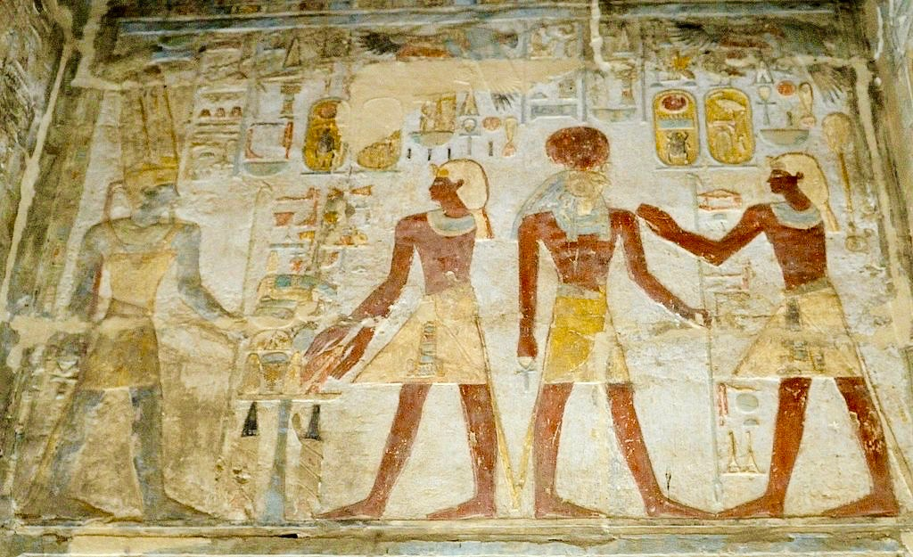 A fine and brightly coloured relief of the kings Thutmose III and Amenhotep II before the gods at Amada Temple in Nubia.